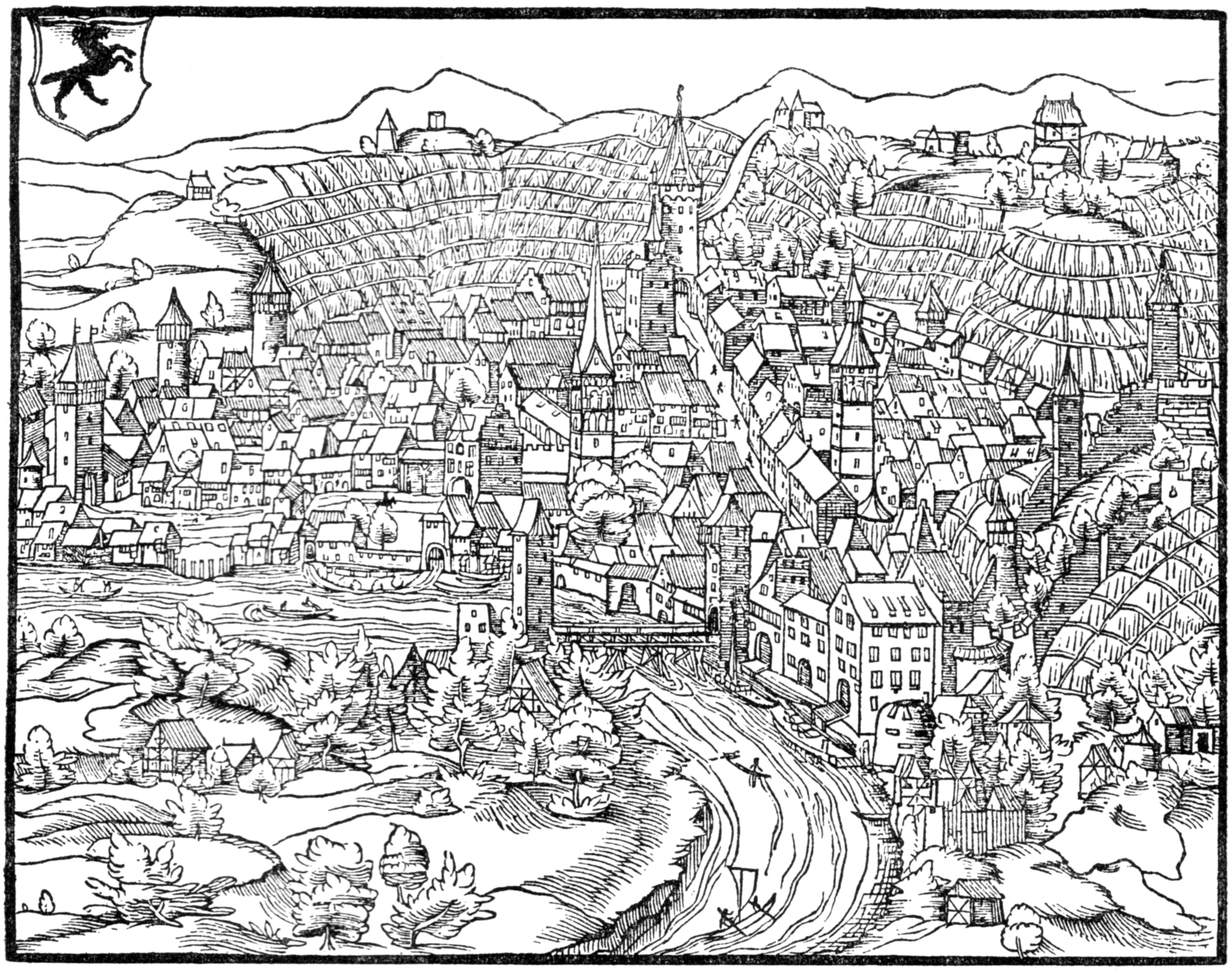 The city of Schaffhausen. Woodcut from the cronicle of Stumpf 1548